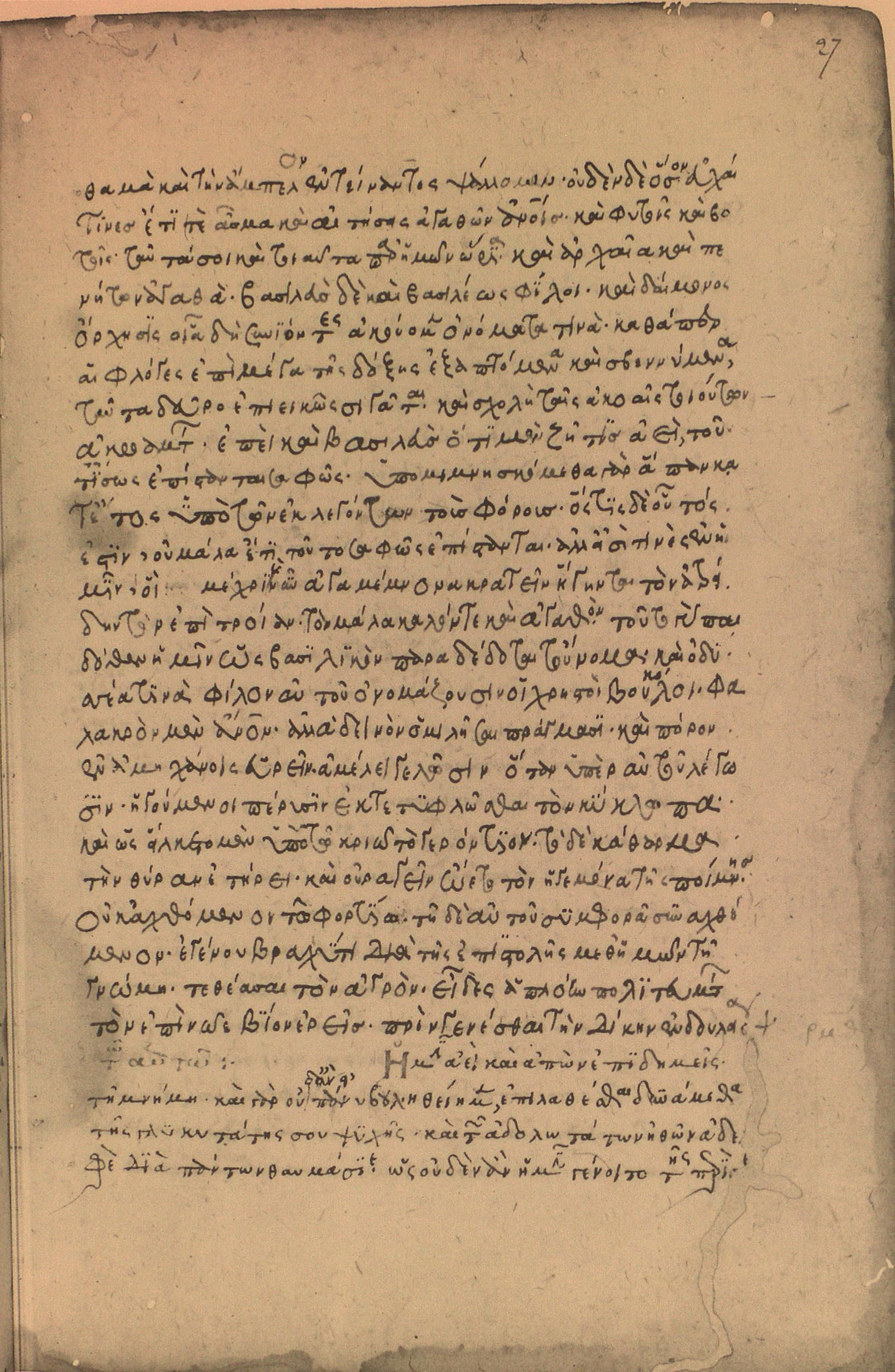 A page of a medieval manuscript containing letters of Synesius. Paris, Bibliothèque nationale de France, Gr. 1040, fol. 27r.